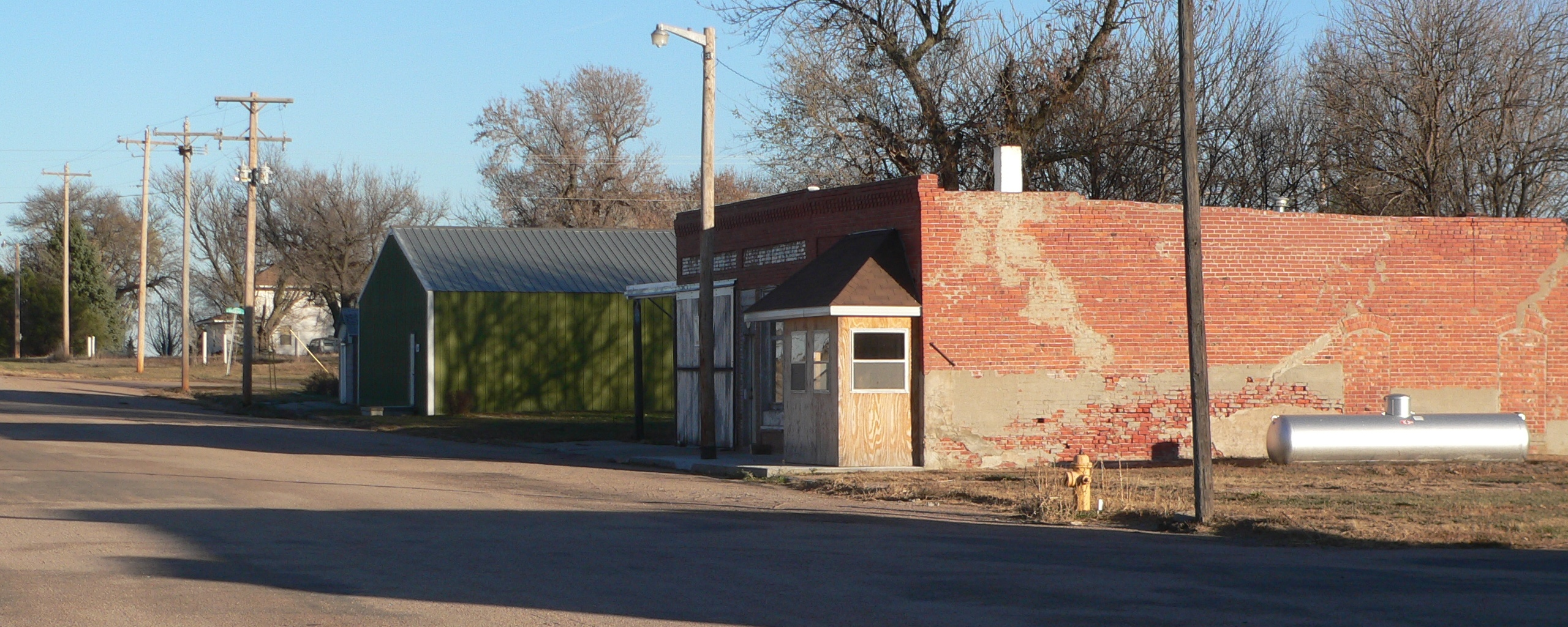 Prosser, Nebraska: south side of Virginia Avenue, looking southeast from about First Street.